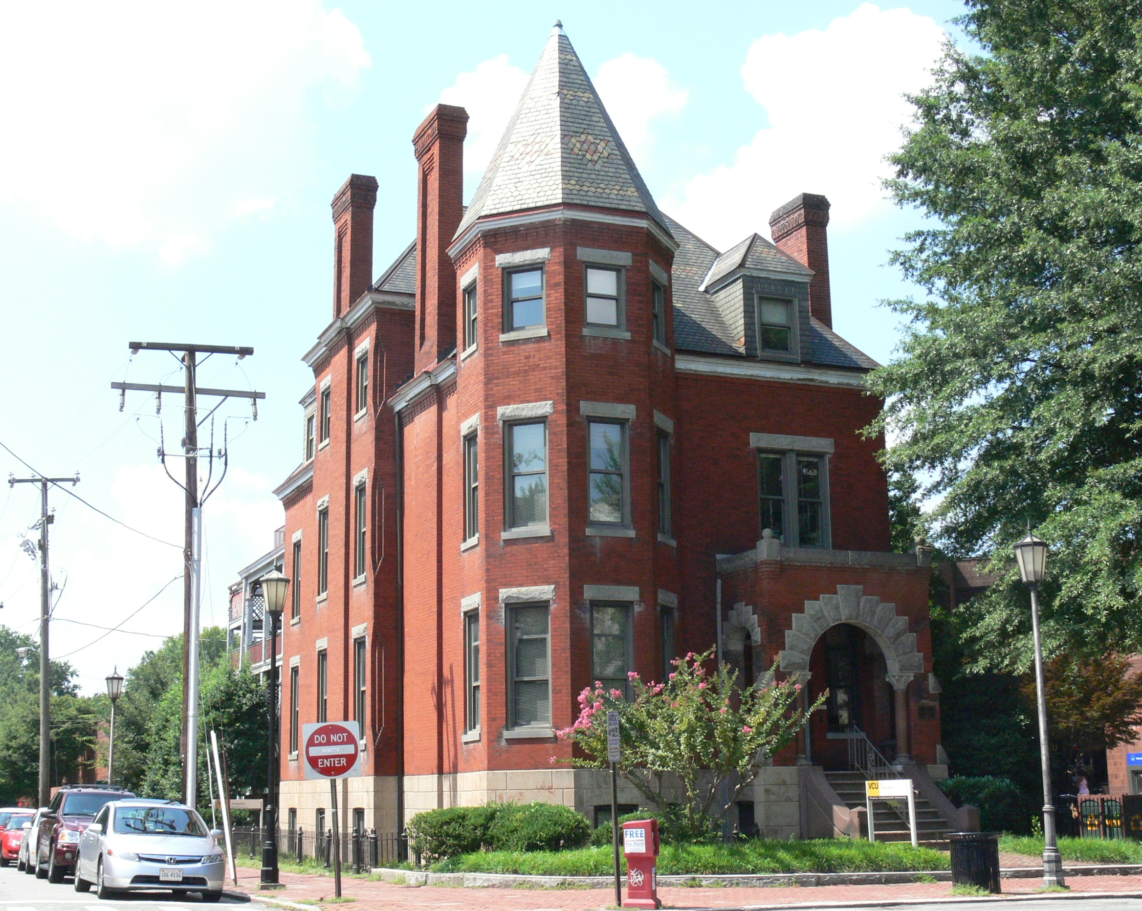 The Hunt-Sitterding House at 901 Floyd Avenue in Richmond, Virginia; on the National Register of Historic Places [cropped]